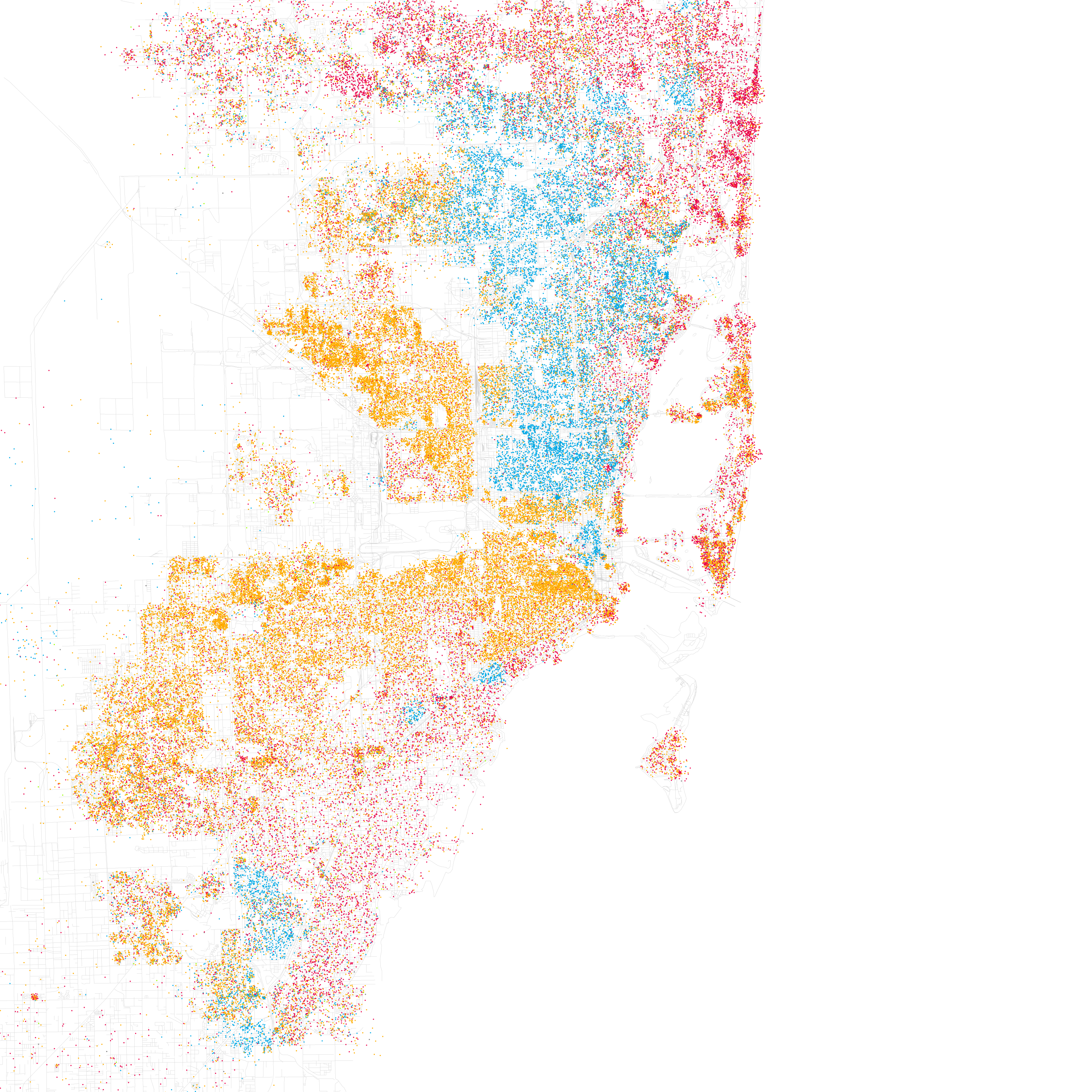 [Eric Fisher] was astounded by Bill Rankin's map of Chicago's racial and ethnic divides and wanted to see what other cities looked like mapped the same way. To match his map, Red is White, Blue is Black, Green is Asian, Orange is Hispanic, Gray is Other, and each dot is 25 people. Data from Census 2000. Base map © OpenStreetMap, CC-BY-SA